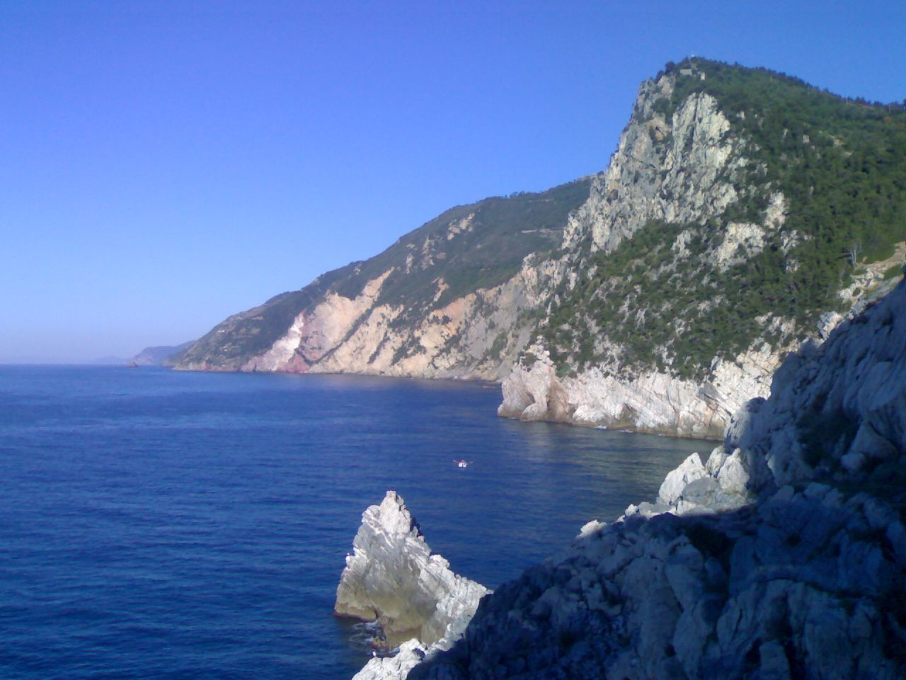 The coast of Portovenere - La costa di Portovenere